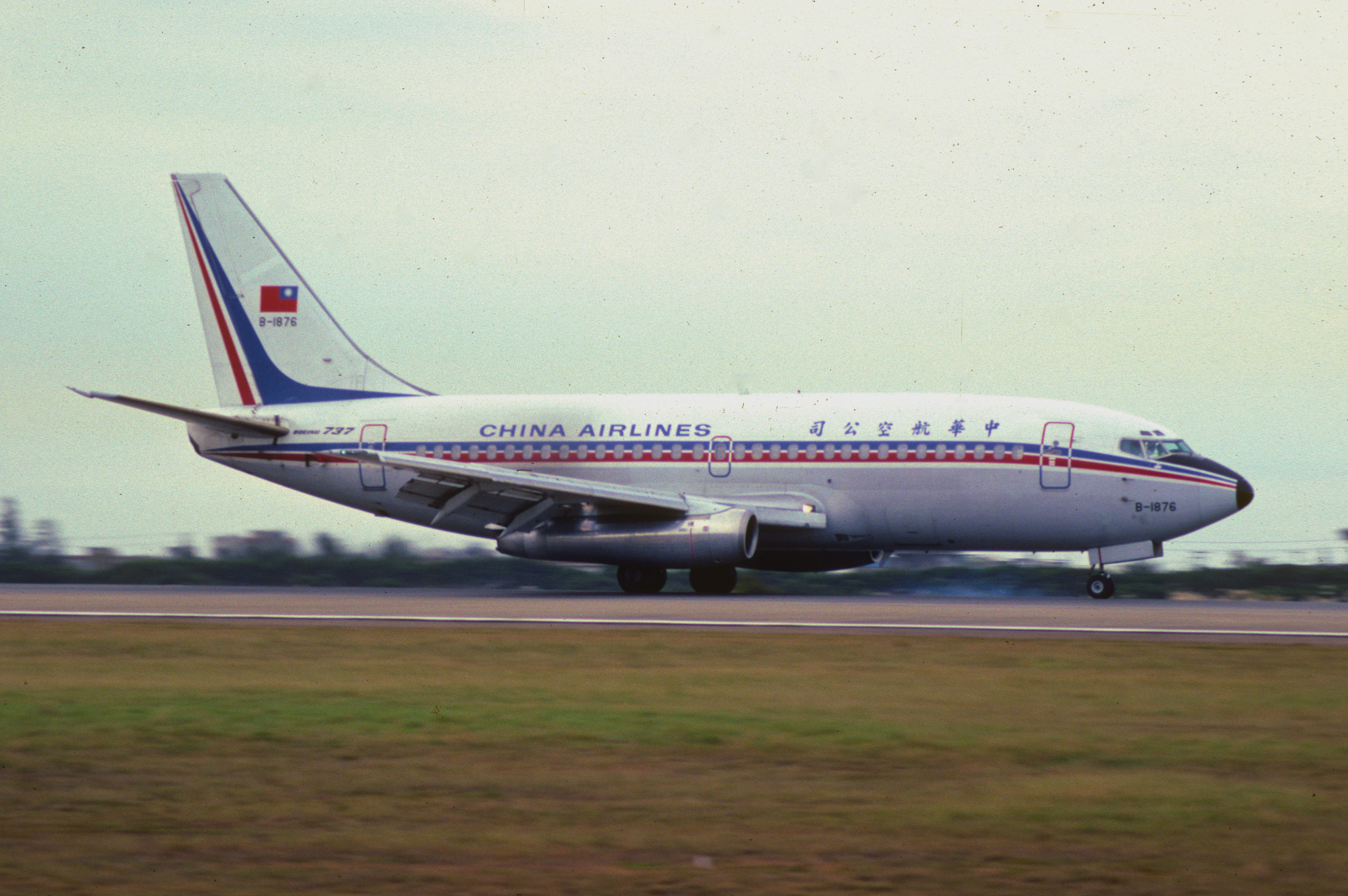 China Airlines Boeing 737-200; B-1876@TPE, November 1991/AMG